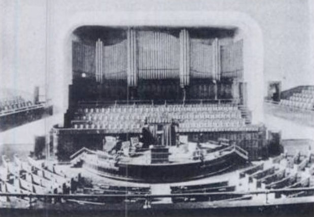 Photo of the platform area inside Baptist Tabernacle in Atlanta, Georgia, USA from 1920. Shows the pipe organ, the choir seating area on the platform, and the main seating area on the floor and in the balconies.